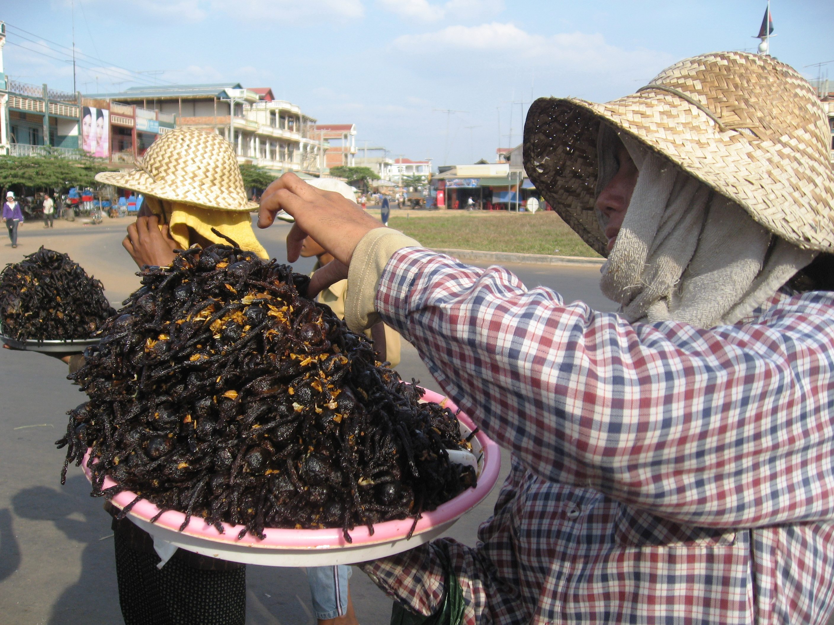 fried tarantulae in Skun in Cambodia